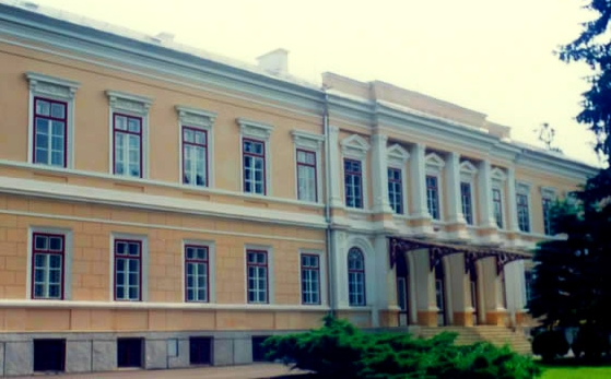 University of Agricultural Sciences and Veterinary Medicine of Cluj-Napoca